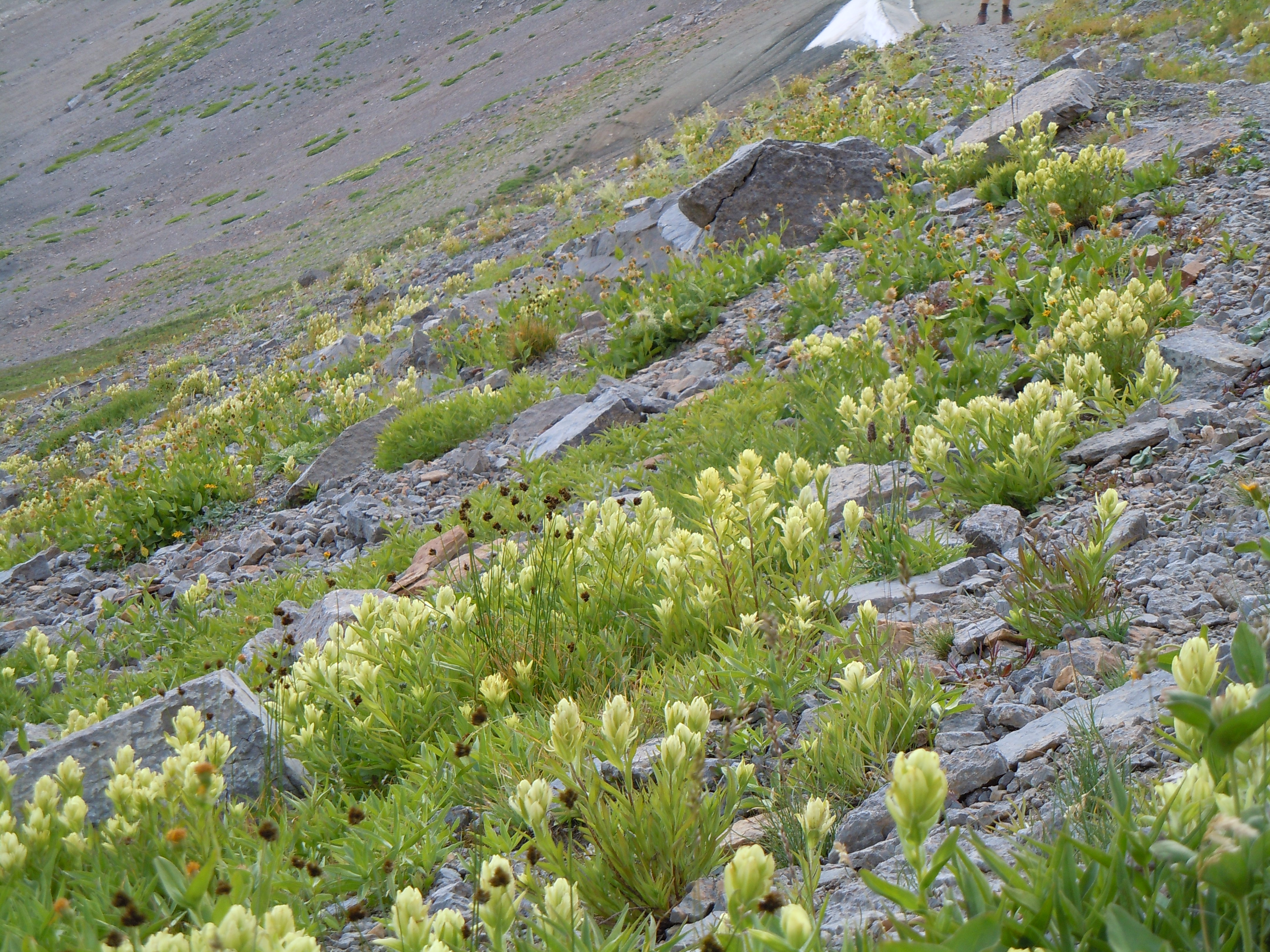 The very common yellow-flowered Castilleja in the Teton Range.